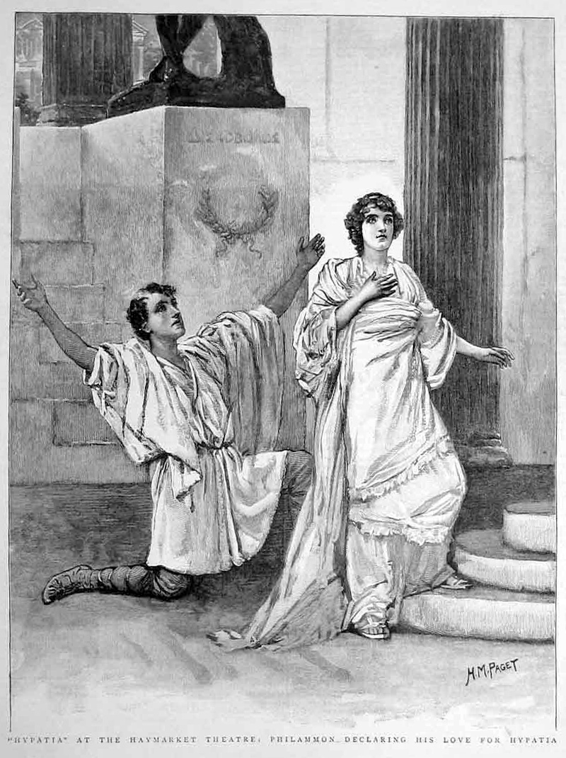 '"Hypatia" at the Haymarket theatre. Philammon declaring his love for Hypatia'. Print from the first page of The Graphic, 21 January 1893.